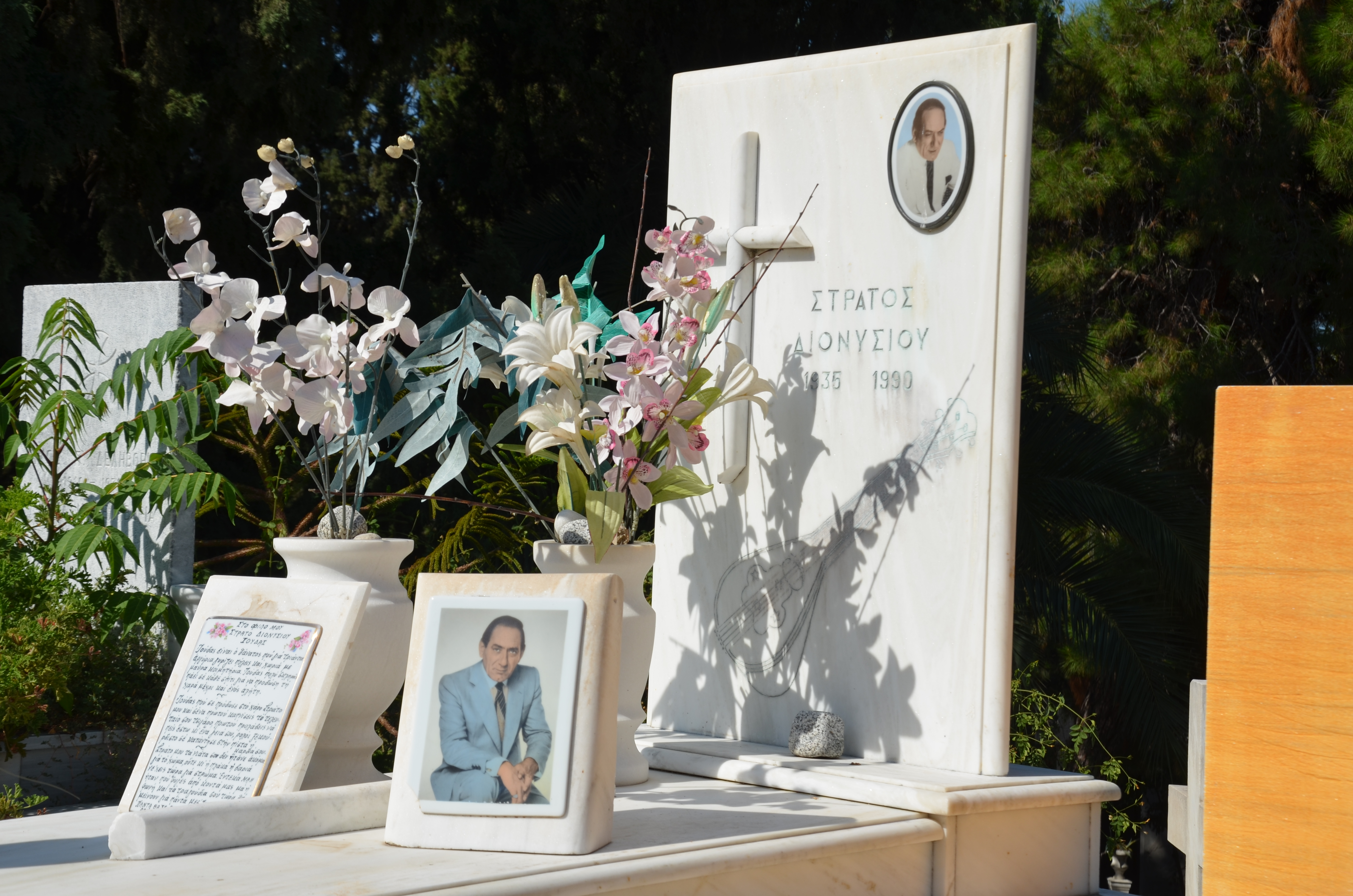 Tomb of Stratos Dionysiou